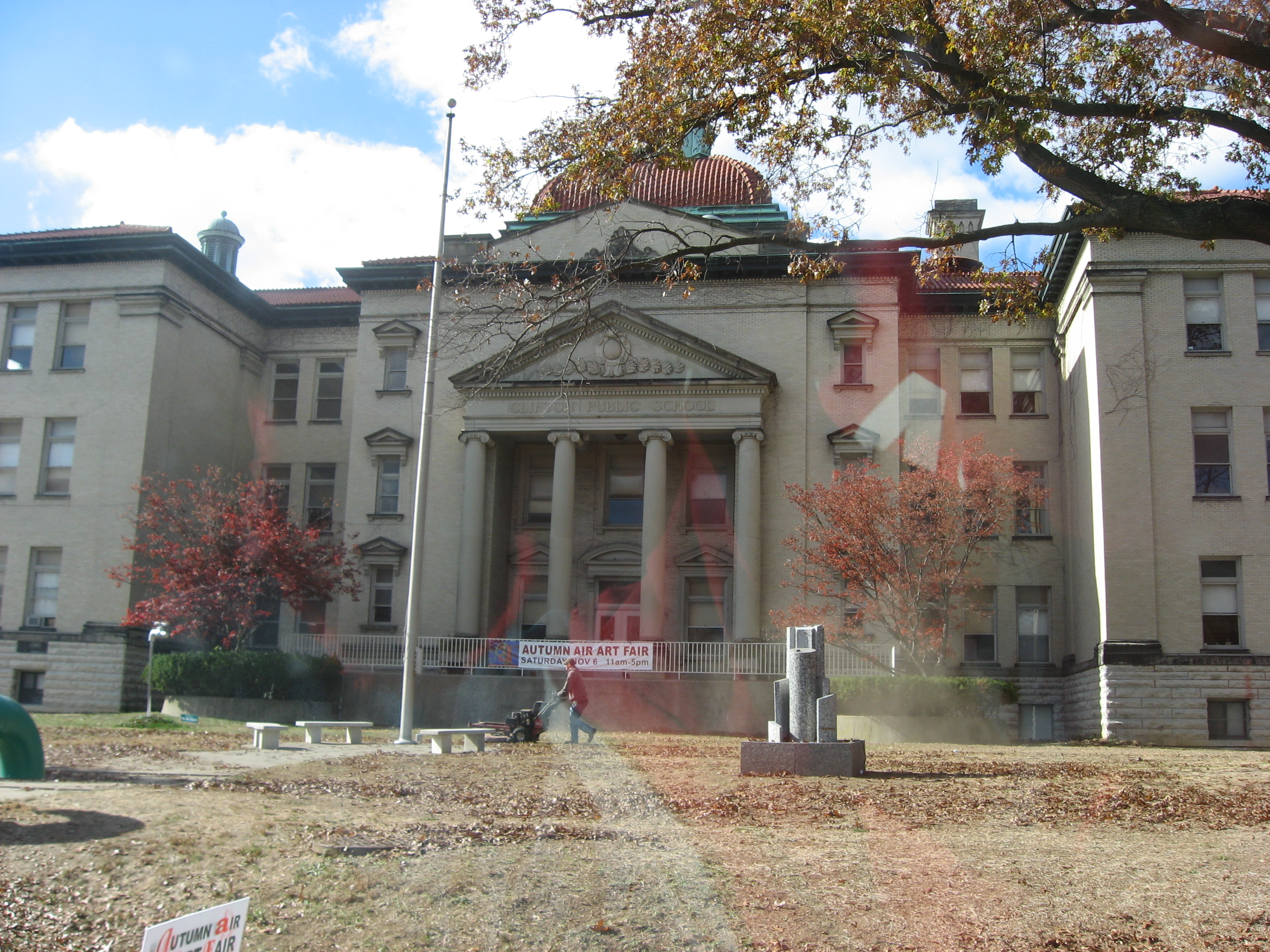 Front of the Clifton Avenue School, located on the northwestern corner of the intersection of Clifton Avenue and McAlpin Street in the Clifton neighborhood of Cincinnati, Ohio, United States. The school is part of the Clifton Avenue Historic District, a historic district that is listed on the National Register of Historic Places.